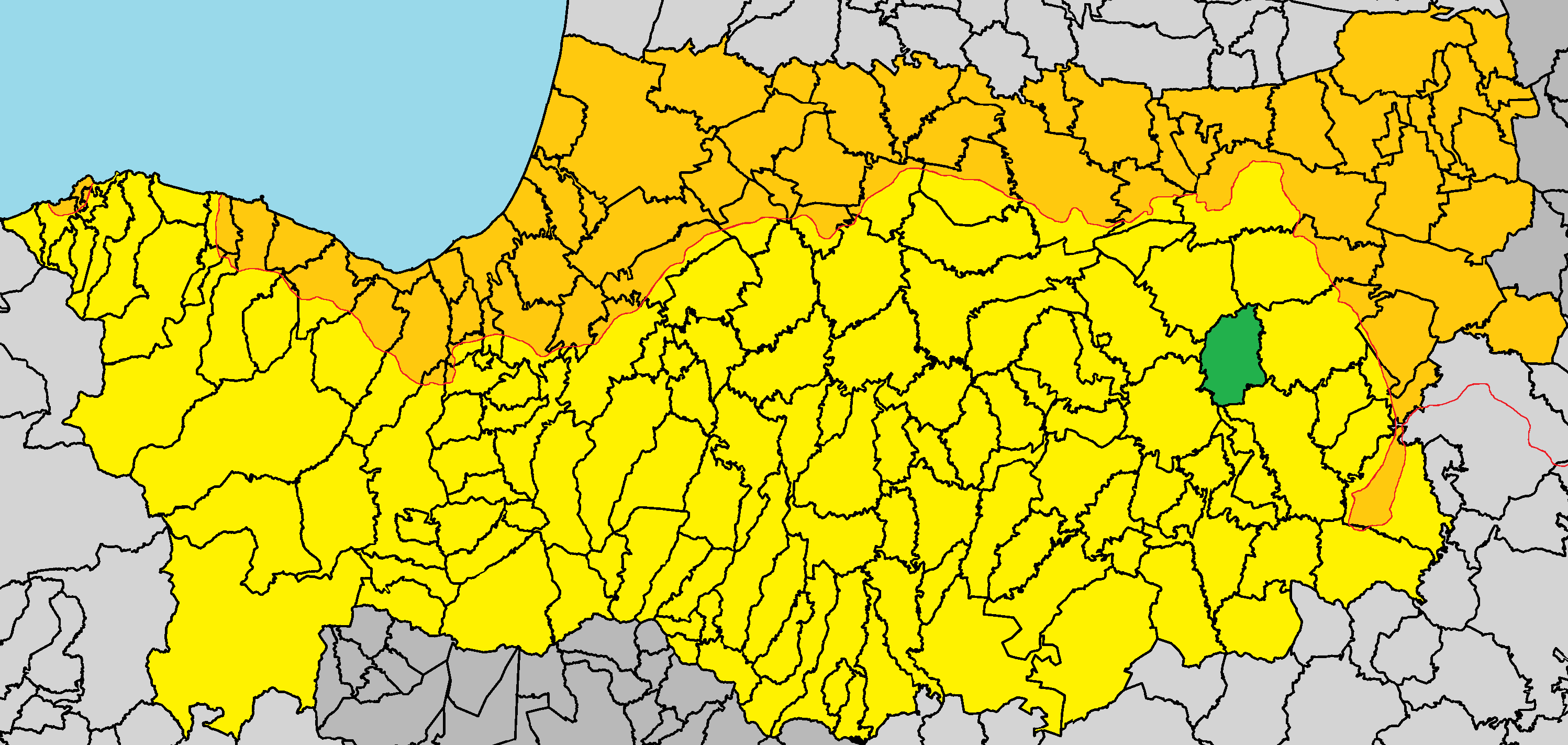 Latsia in Nicosia District.